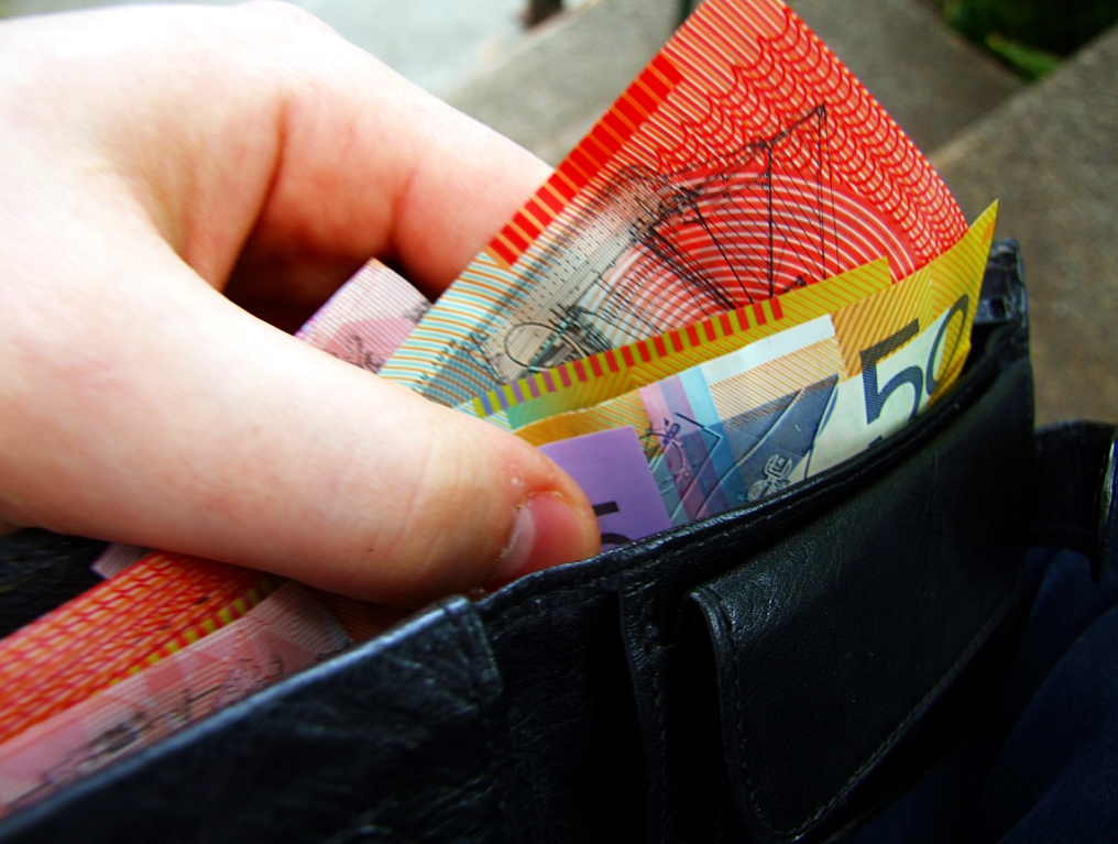 A hundred and fifty odd dollars of our very colourful Australian money. It's made of plastic, and you are going to have difficult time tearing it. You are probably better off setting the stuff alight, or sticking it in a particle accelerator, or (I don't know!) firing it into space via a bloody big cannon, like some kind of twisted notaphilist version of a Jules Verne store.